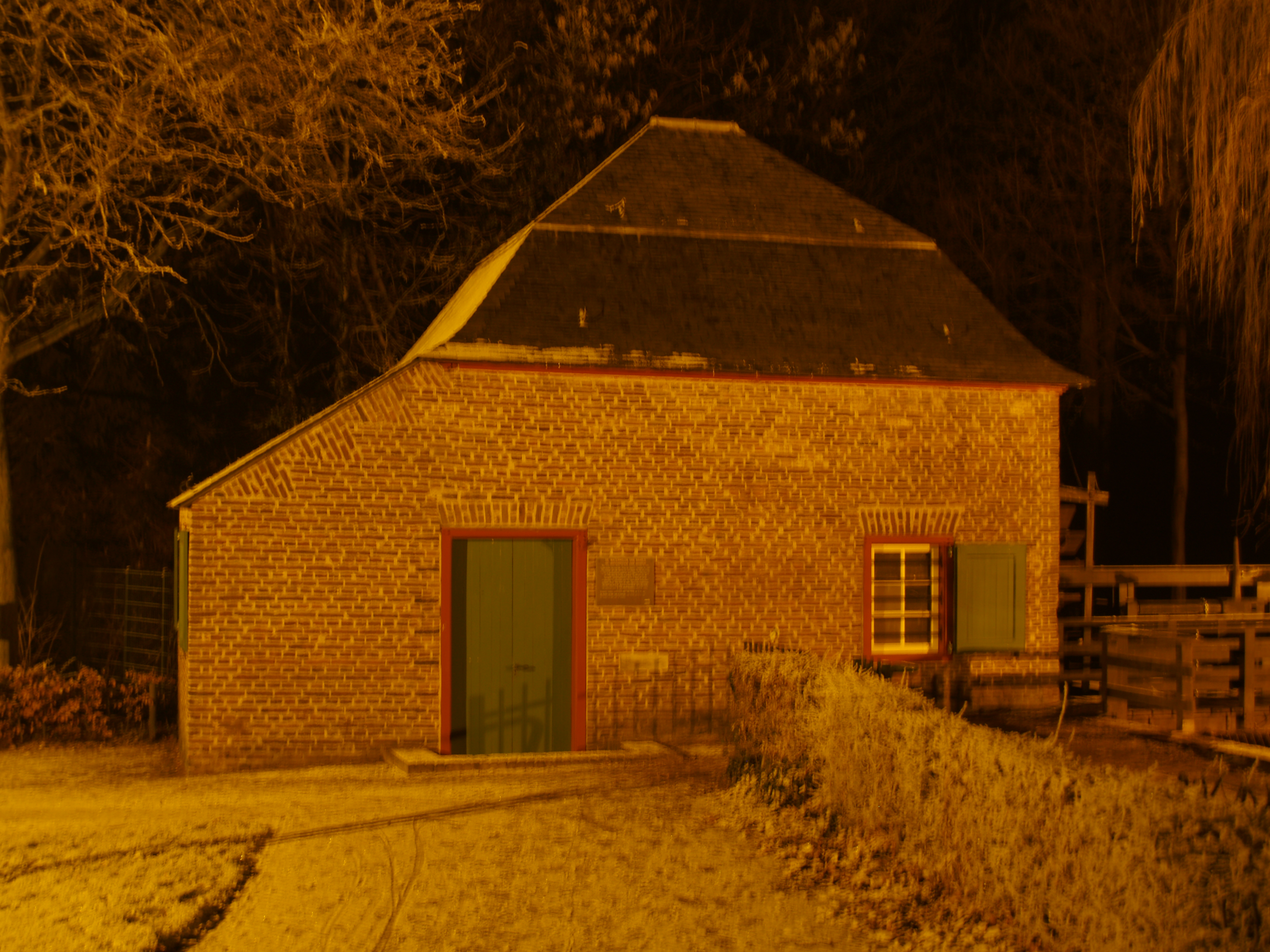 Baarlo